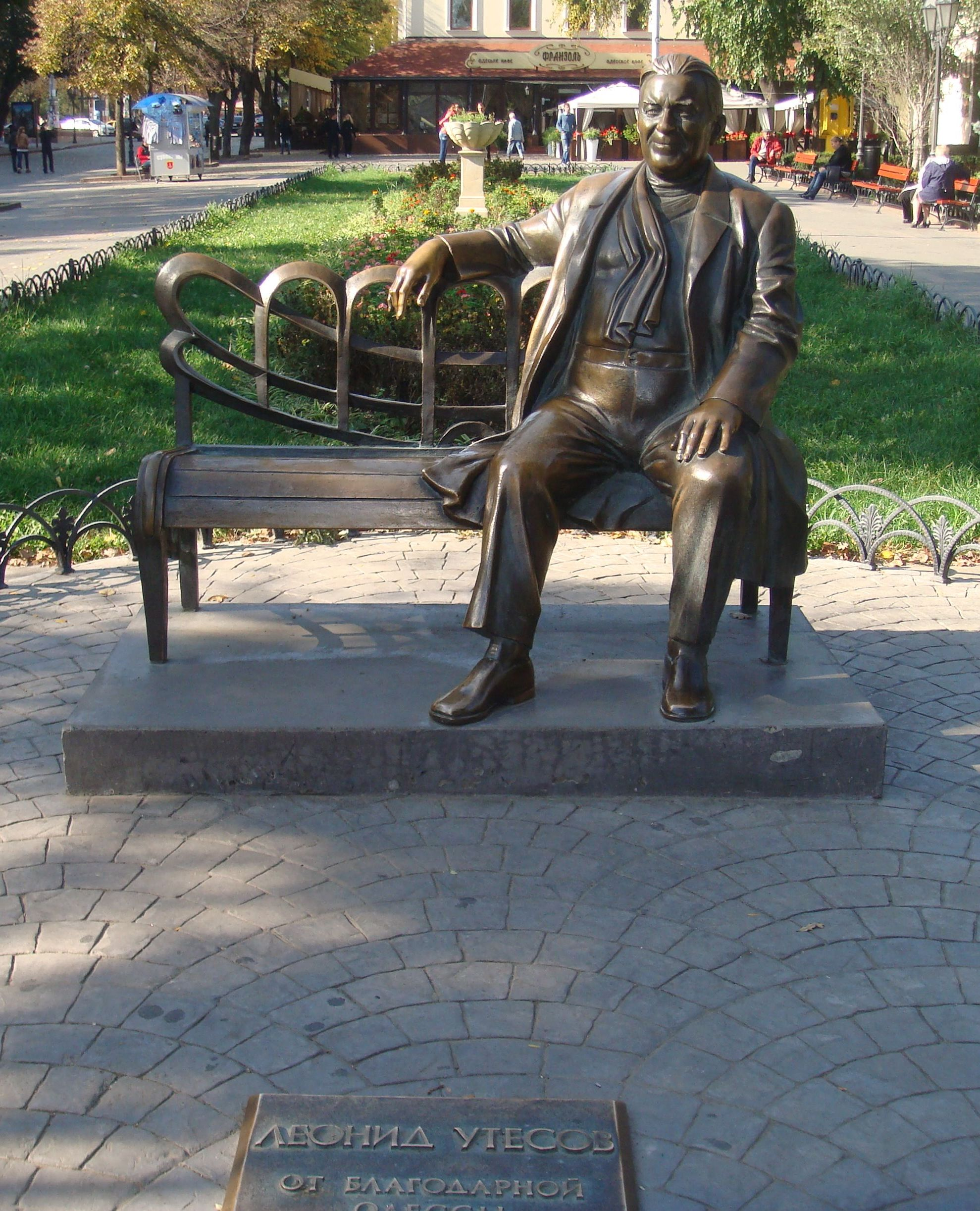 Monument to soviet singer Leonid Utesov erected on Deribsovskaya street in Odessa